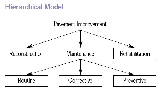 Hierarchical Model. A data model that links records together like a family tree, but each record type has only one owner (e.g., a purchase order is owned by only one customer). Hierarchical data structures were widely used in the first mainframe database management systems. However, due to their restrictions, they often cannot be used to relate structures that exist in the real world.